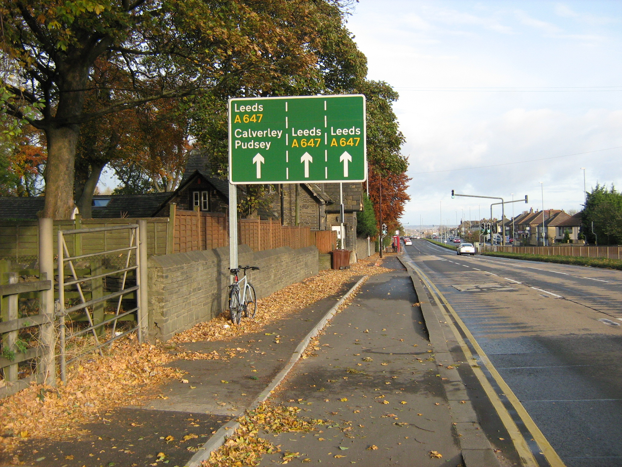 Primary route A647 and segregated cycleway CS1 in Pudsey, West Yorkshire